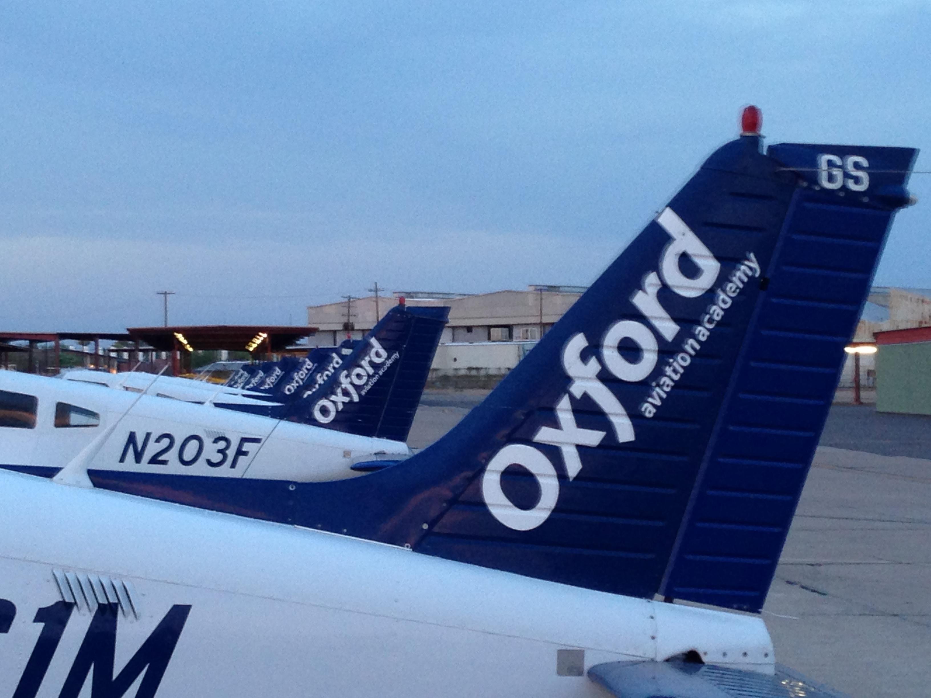 Oxford Aviation Academy's ramp